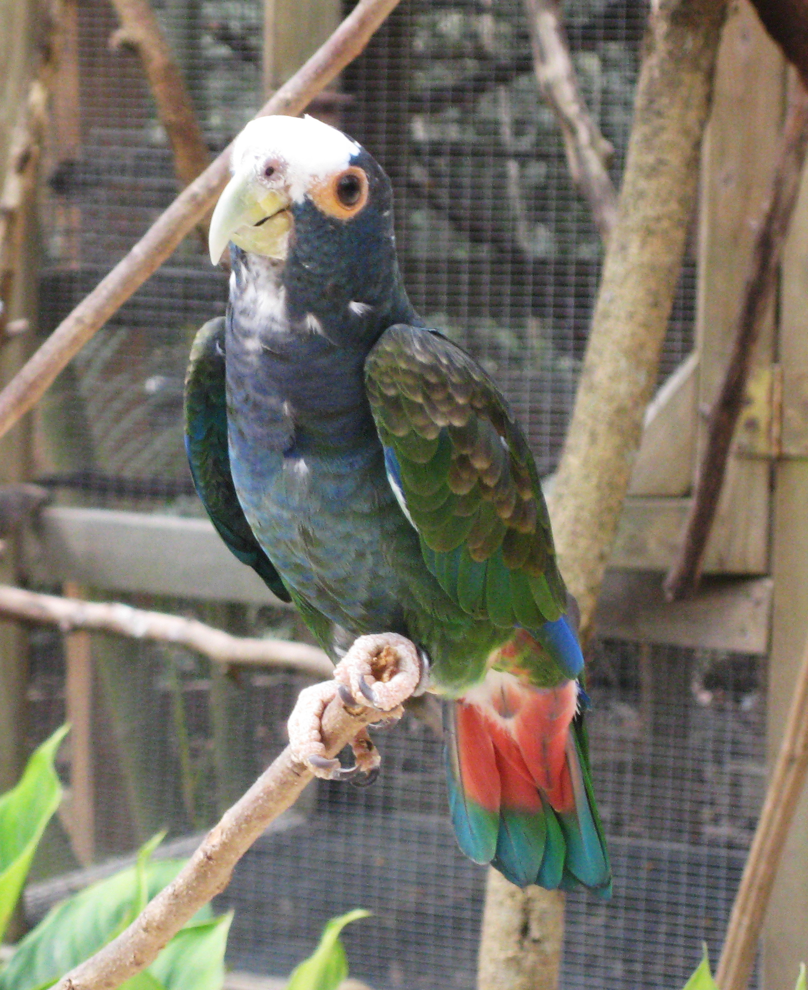 A White-crowned Parrot (also known as White-crowned Pionus) at Macaw Mountain Bird Park, Honduras.